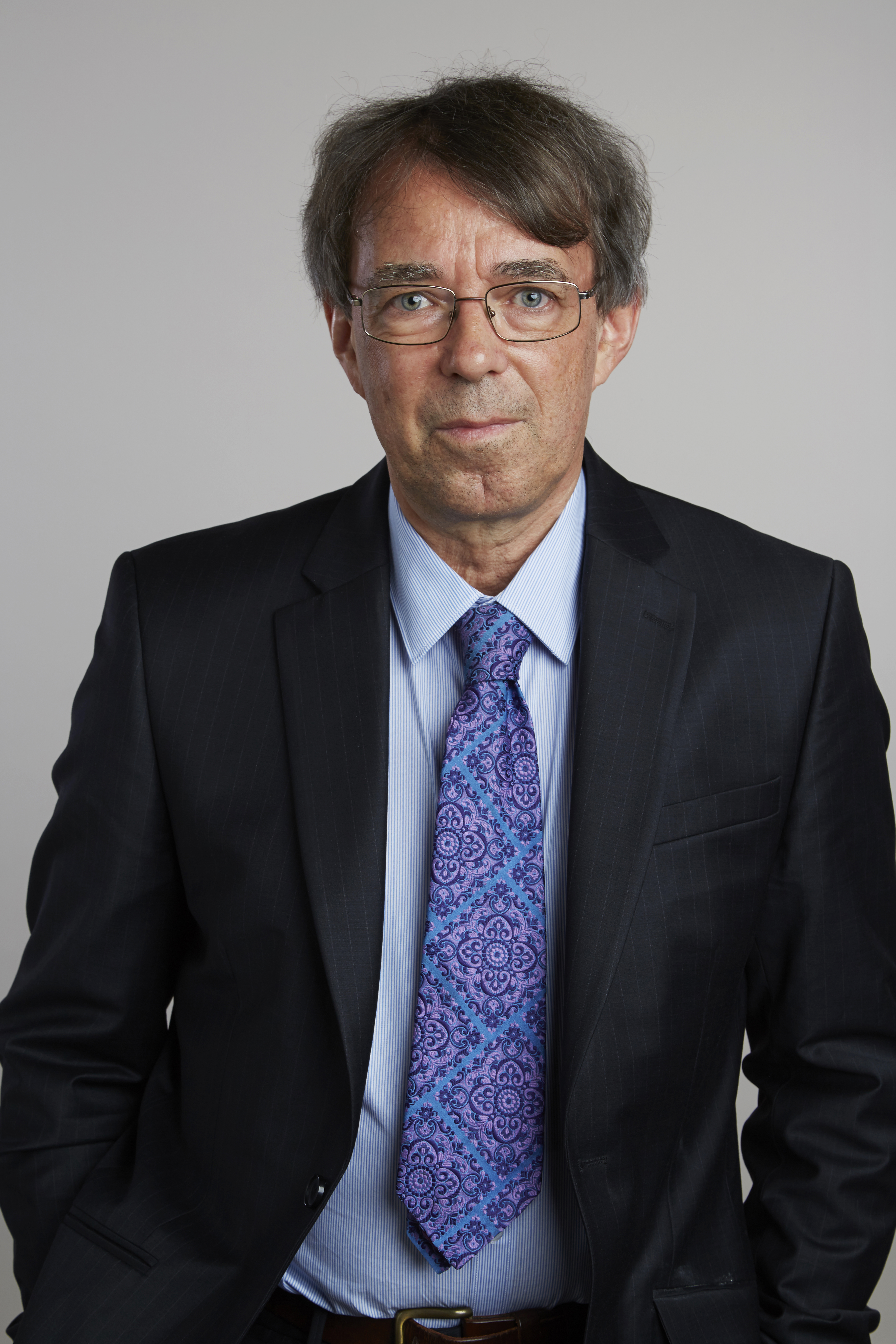 Stephen Cusack is a structural biologist who uses X-ray crystallography as his main tool. His principal interests lie in determining the structure–function relationships of protein–RNA complexes in gene expression, translation, innate immunity and viral replication. His major current focus is understanding the mechanism of negative-strand RNA virus polymerases, notably of influenza virus and bunyavirus. Previous work on isolated domains of influenza virus polymerase involved in transcription by cap-snatching led him to co-found Savira Pharmaceuticals to pursue anti-influenza drug development. Recently, the crystal structure of the complete influenza polymerase has been determined together with bound viral RNA. Since 1989, Stephen has been Head of the Grenoble outstation of the European Molecular Biology Laboratory. Prior to switching his interests to molecular biology, he graduated in physics and theoretical physics from the University of Cambridge and obtained a PhD in theoretical solid-state physics at Imperial College London. Stephen was elected to the European Molecular Biology Organization in 1998 and currently holds a European Research Council Advanced Award. Attribution: The Royal Society